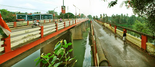 The two bridges across mvpa river